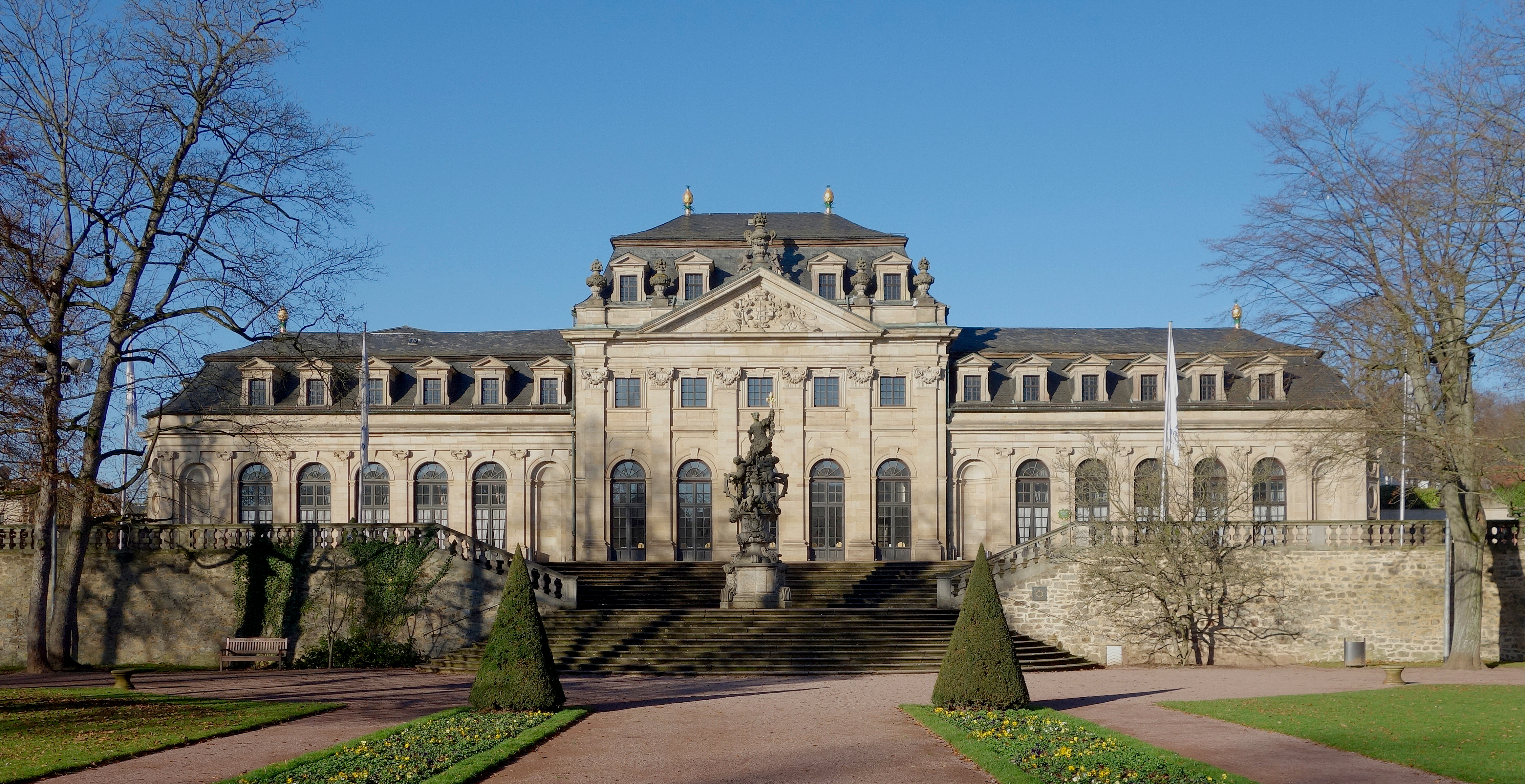 Orangerie in Fulda, Germany.